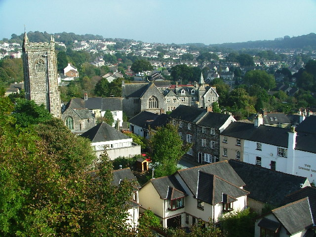 Roofscape of part of Plympton St Maurice, Devon, from the castle. From left to right are St Maurice's parish church, the Old Grammar School and the white building of the London Inn